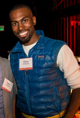 Michelle Harris Bondima - Statewide Director, Community College Leadership Doctorate Program, Morgan State University Peter Kannam - ?? DeRay Mckesson - Interim Chief of Human Capital, Baltimore City Schools